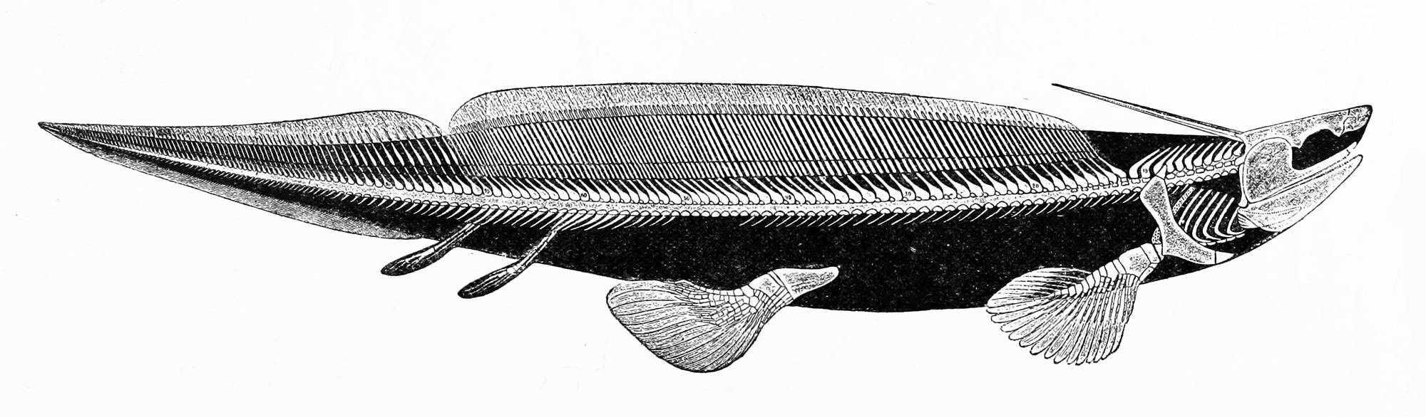 Reconstruction of Pleuracanthus (synonym of Xenacanthus) decheni